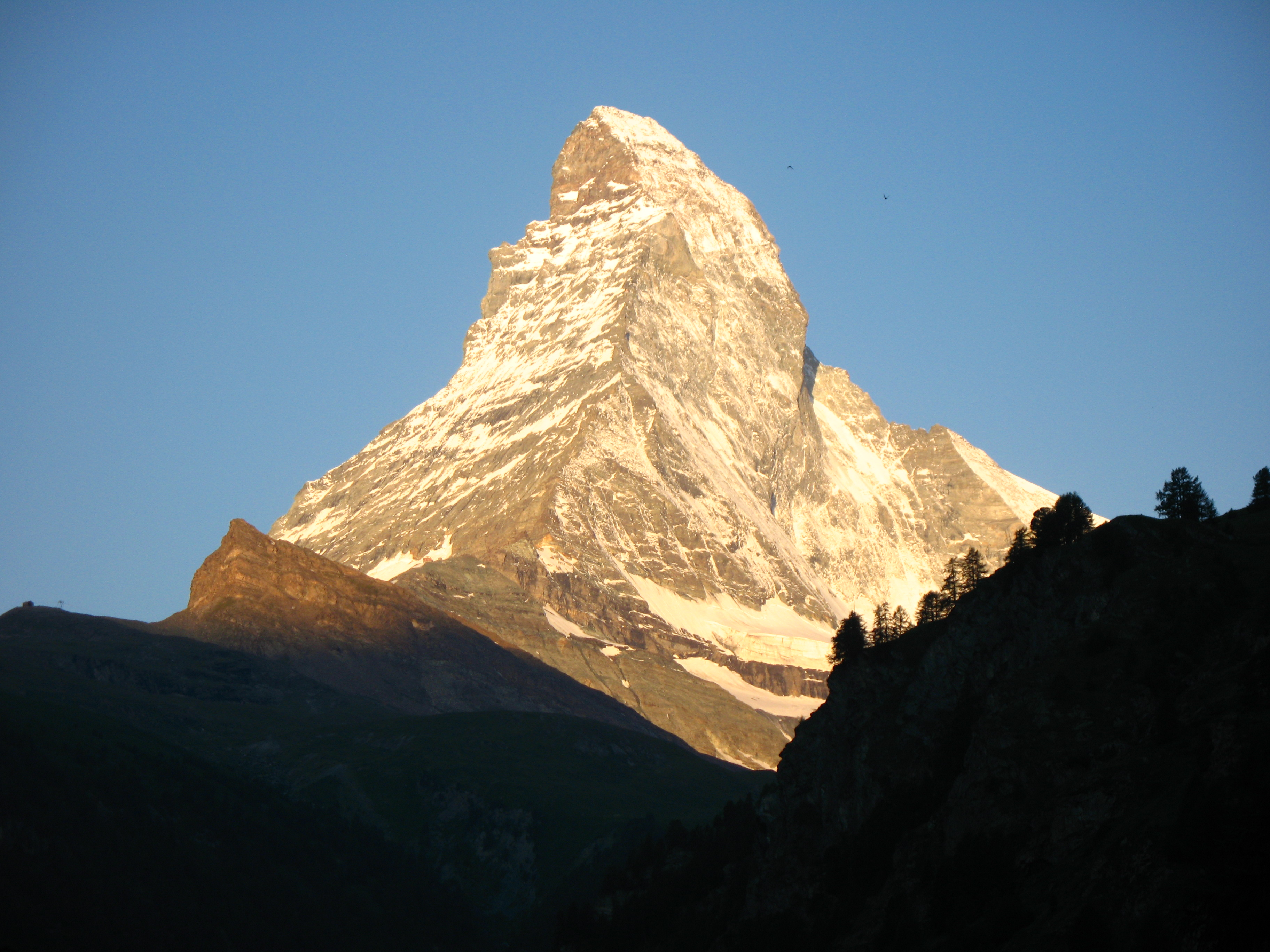 Matterhorn viewed from the Church Bridge, Zermatt, Switzerland